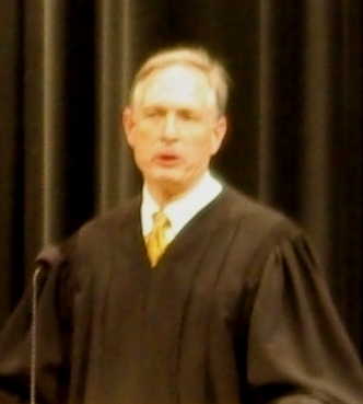 Oregon Supreme Court justice Rives Kistler at the Oregon Bar swearing-in ceremony at Willamette University.